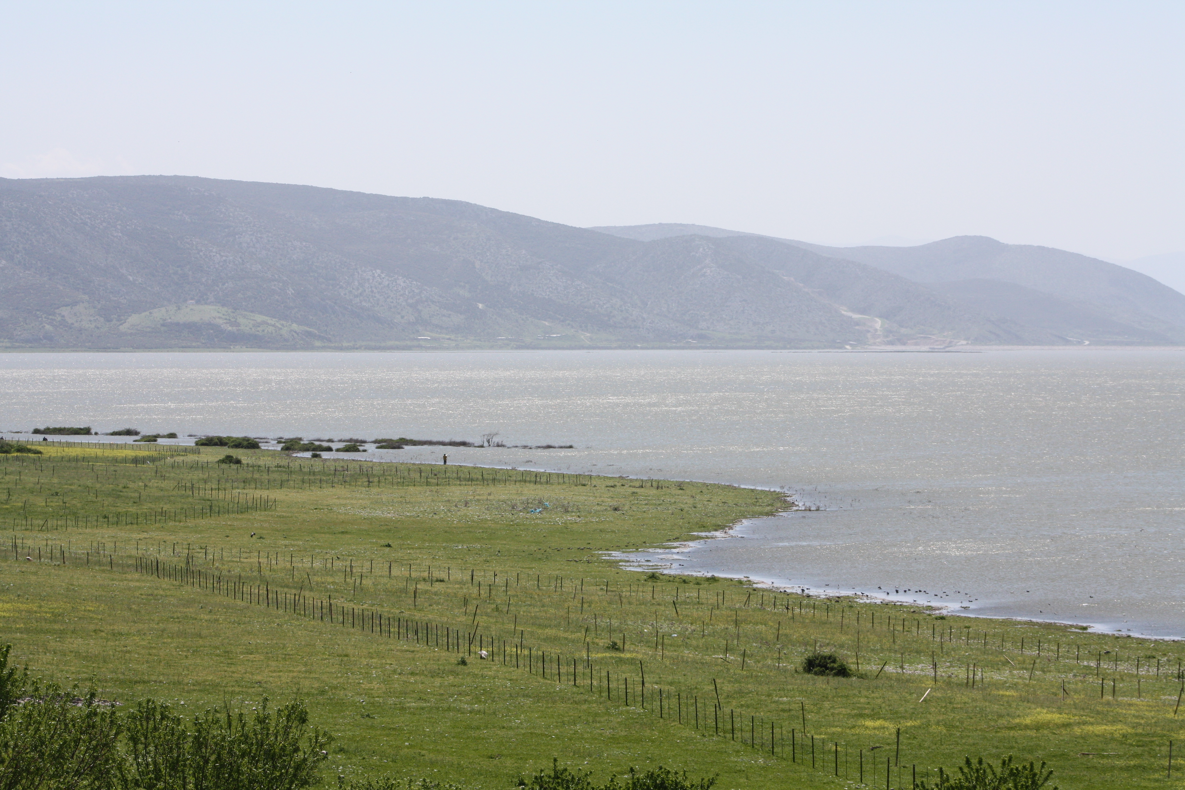 This is a photography of Natura 2000 protected area with ID GR1420004